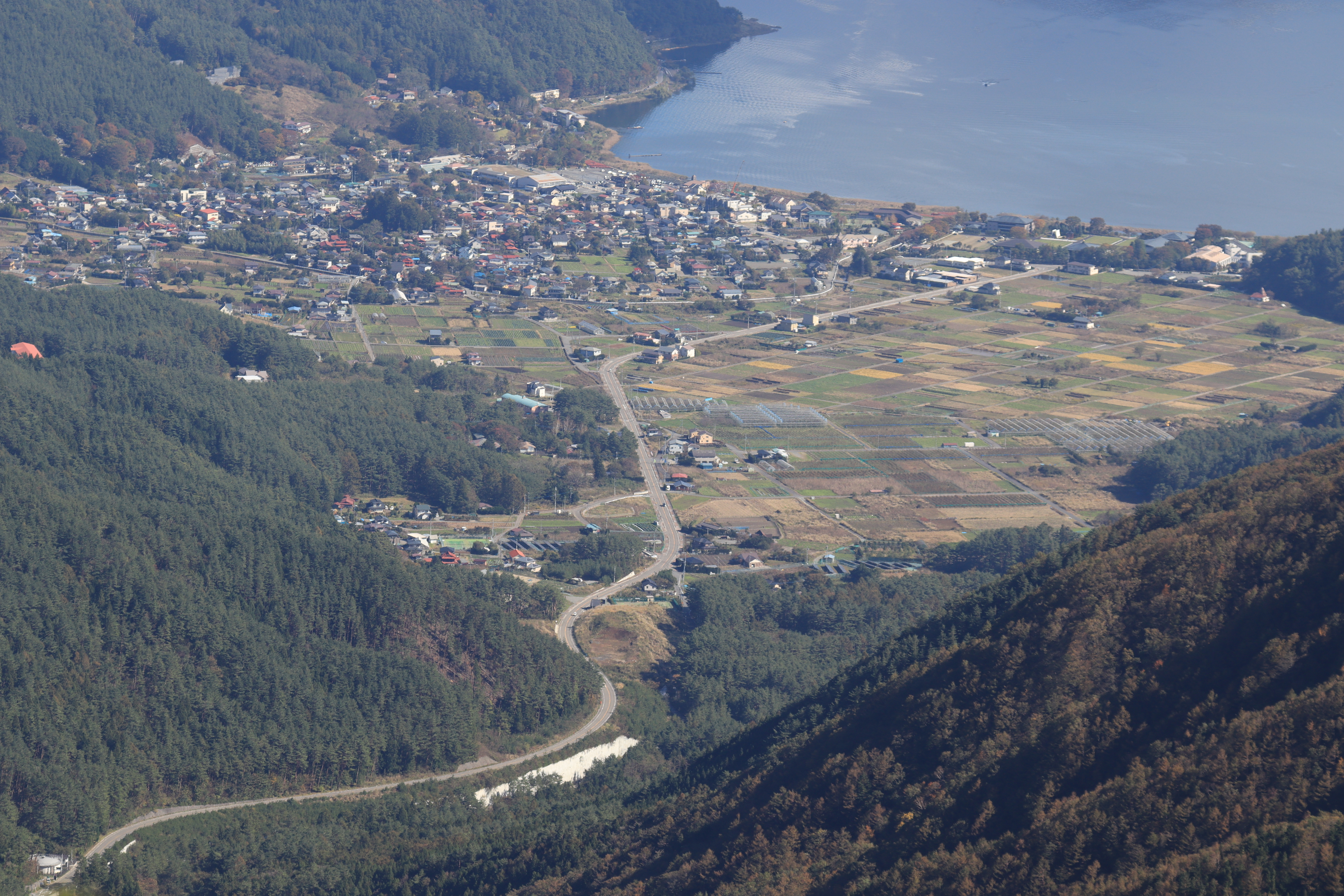 Lake Kawaguchi and Yamanashi Prefectural Road Route 719 seen from Mount Setto (Misaka Mountains) in Oichi, Fujikawaguchiko, Yamanashi Prefecture, Japan.